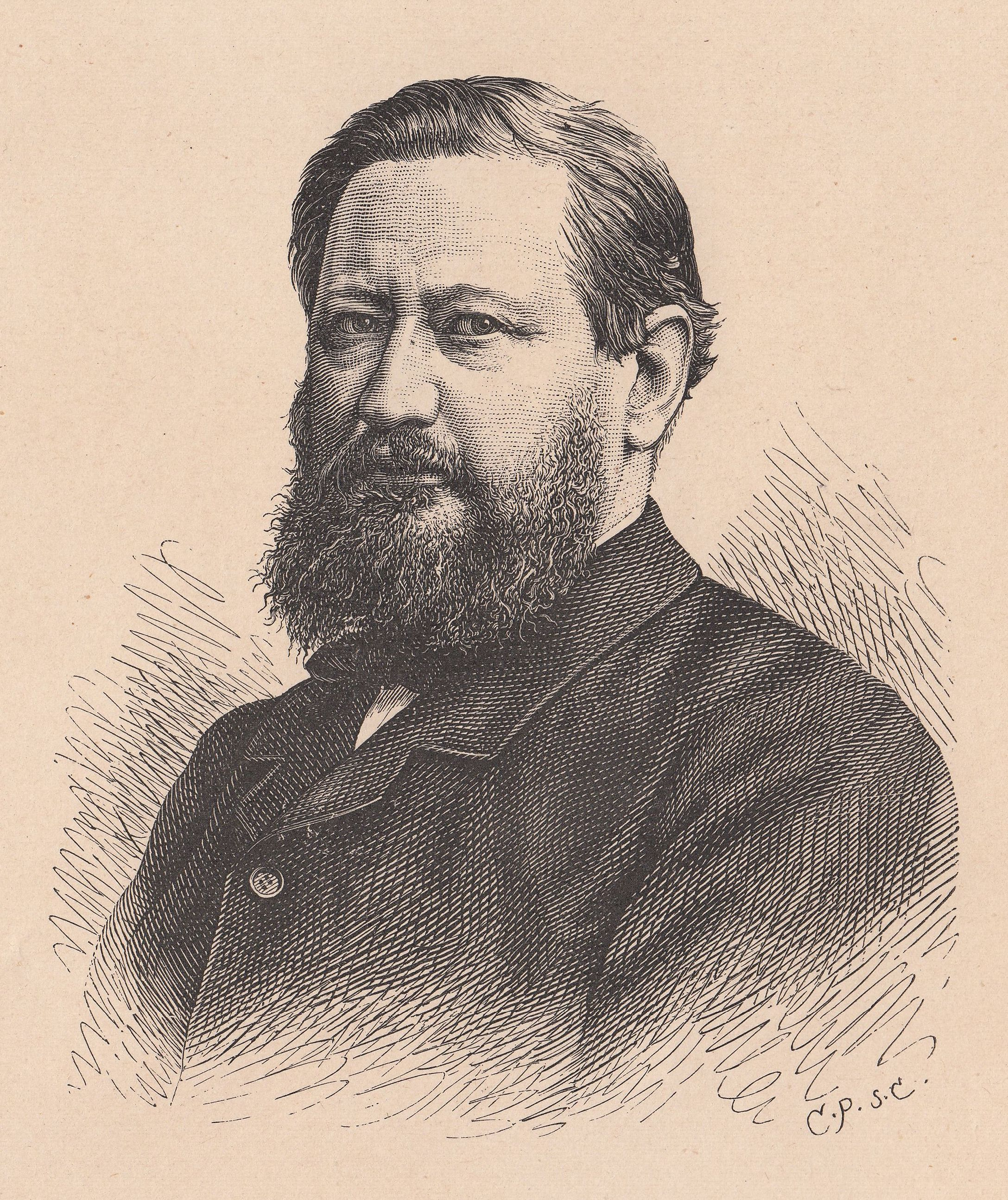 Danish poet S. Schandorph